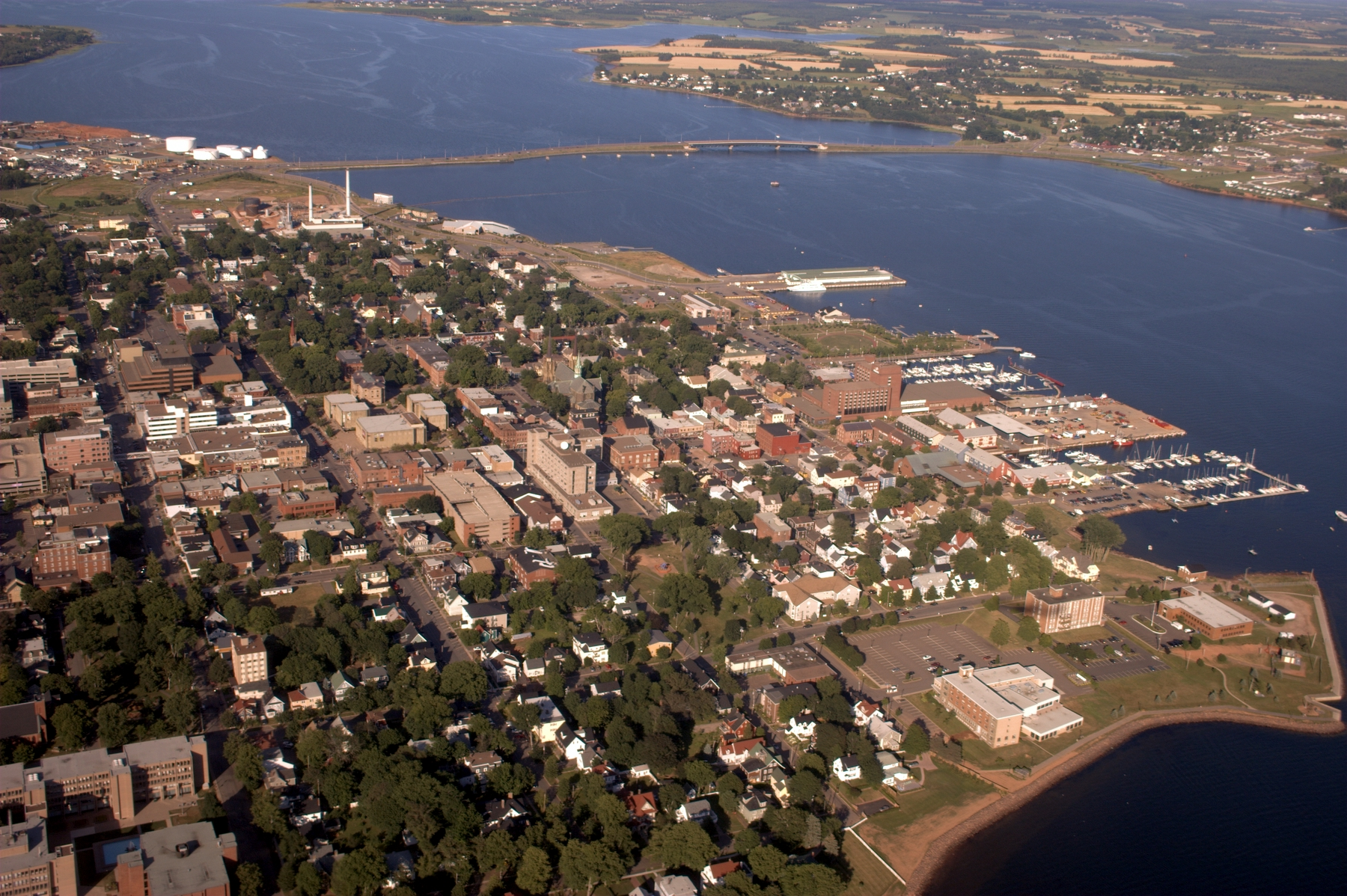 As we flew over headed for the airport, downtown Charlottetown and the waterfront.